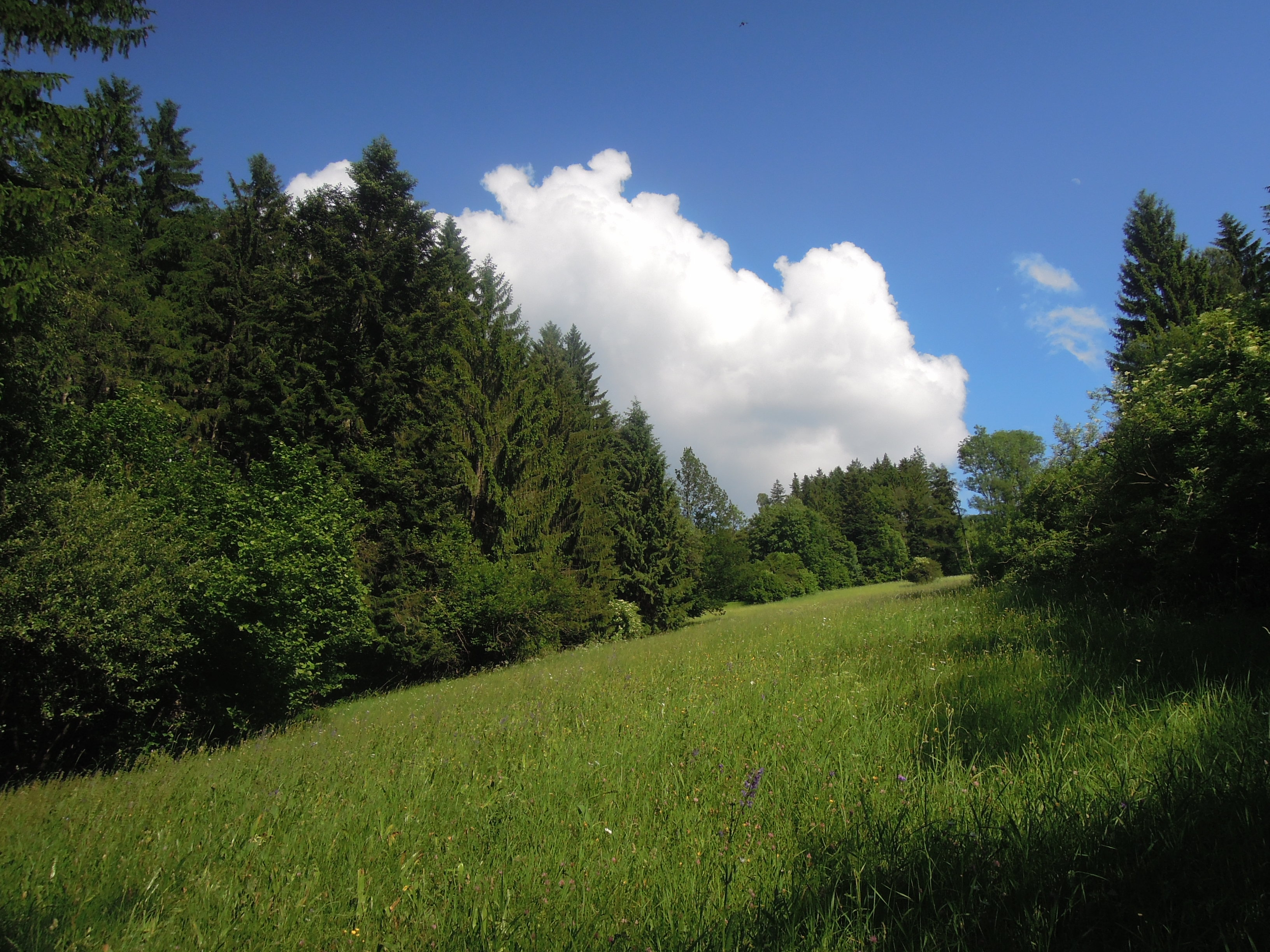 Javorůvky nature reserve in Valašské Klobouky, Zlín District, Zlín Region, Czech Republic